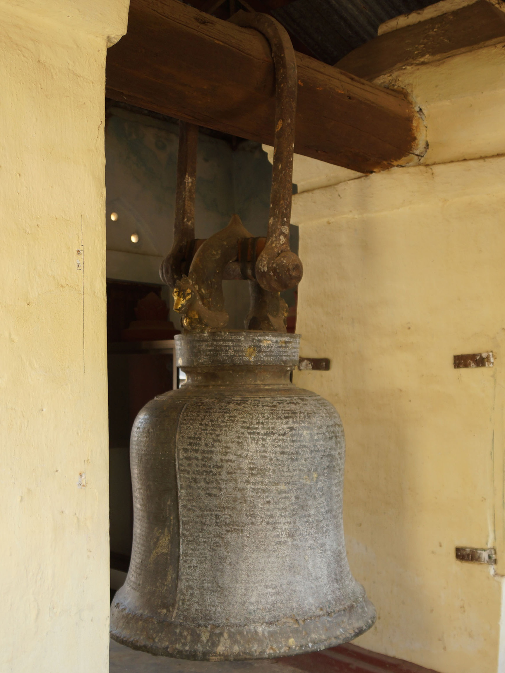 Photo of Shwezigon Bell from Bagan